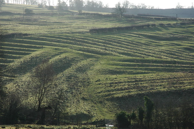 Complicated medieval ridge and furrow patterns on the hillside to the west of Lower Coscombe Farm above the small village of Wood Stanway, near to Didbrook, Gloucestershire, Great Britain.